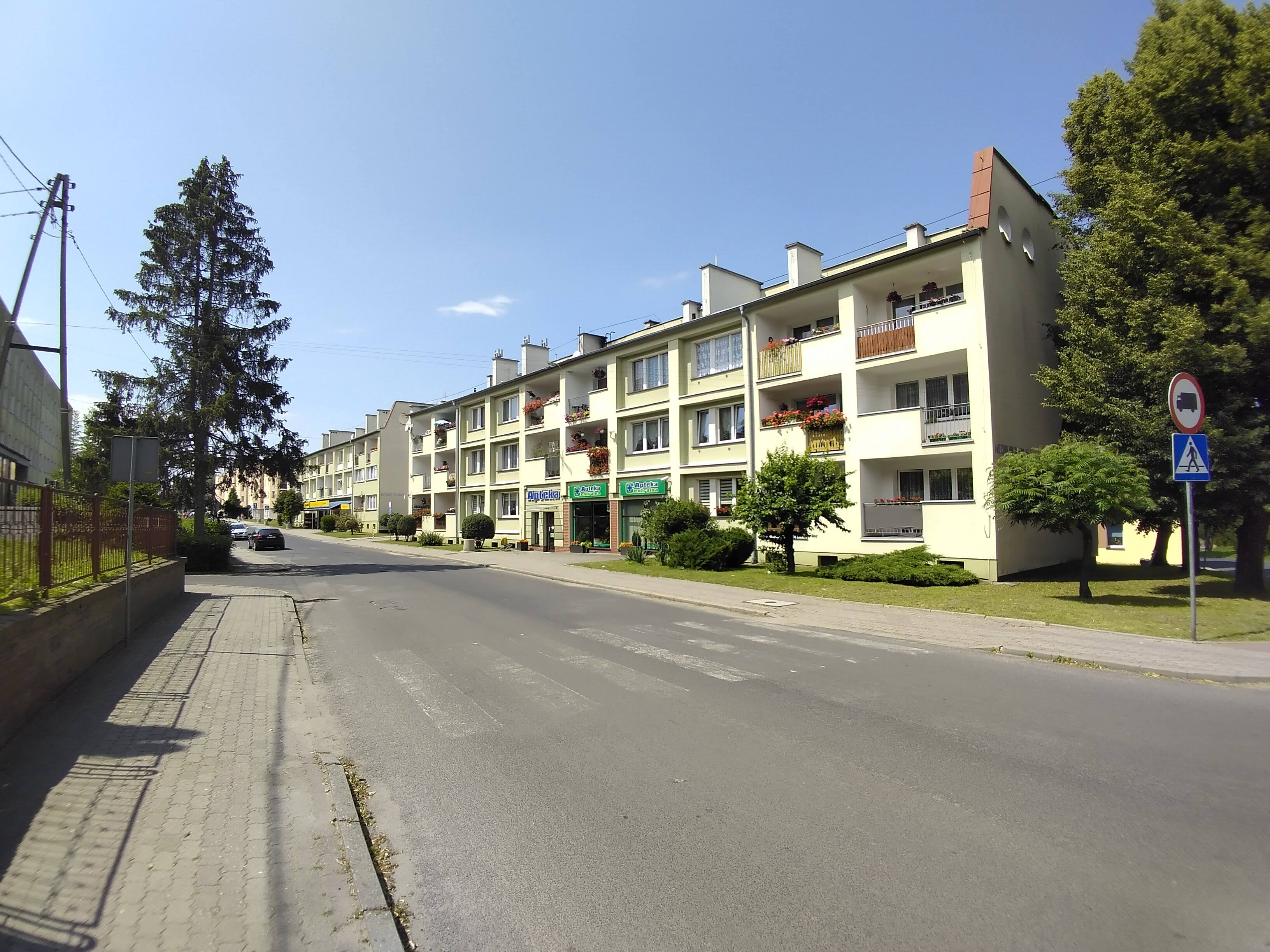 Wojska Polskiego Street, the main street of former Old Town in Kietrz/Katscher, Upper Silesia, Poland